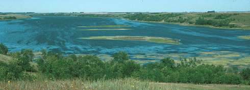 Wetlands at Arrowwood National Wildlife Refuge, North Dakota, U.S.A.